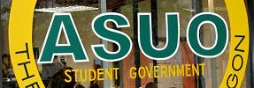 ASUO